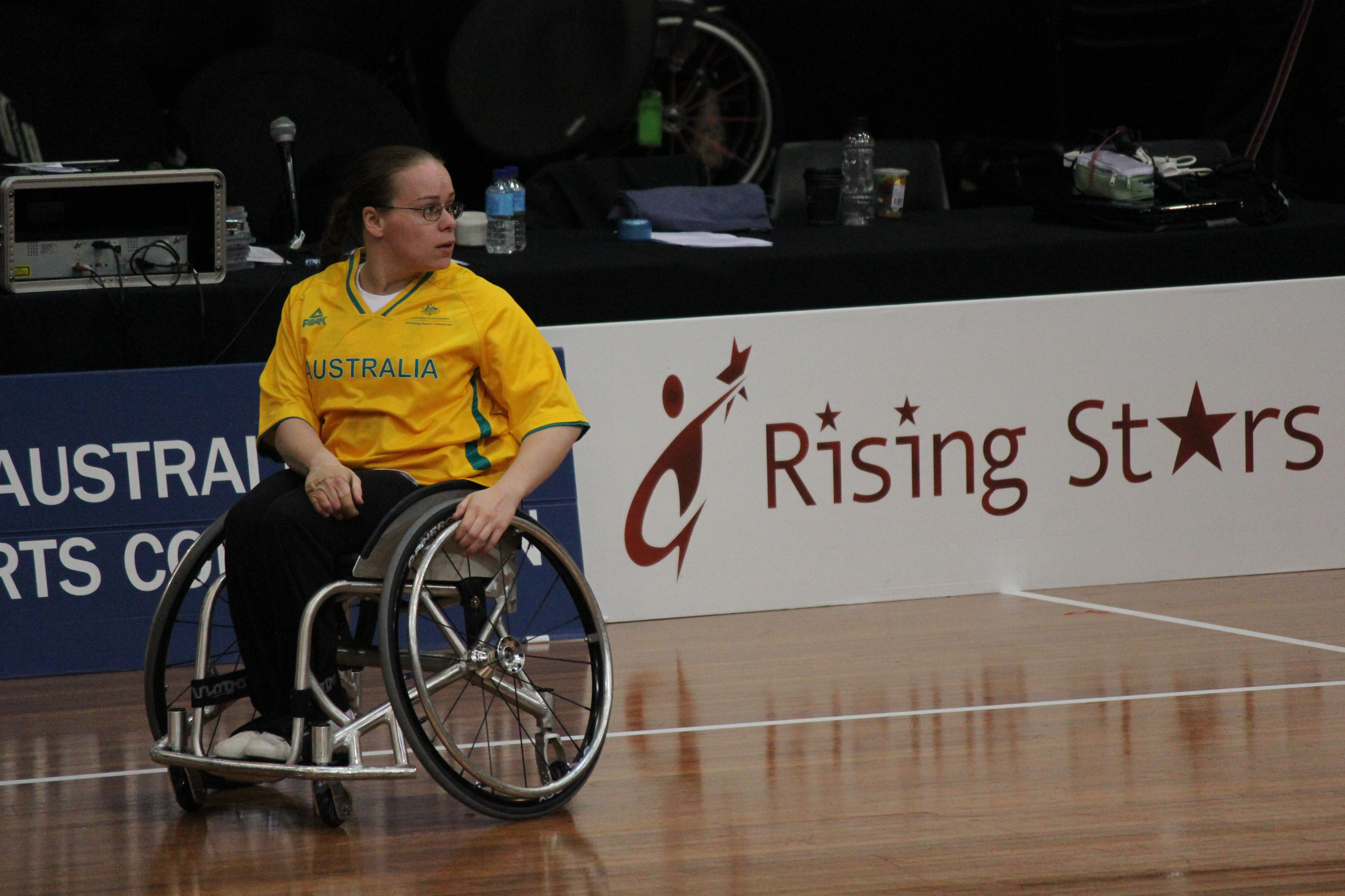 Australian Glider player Katie Hill at the Australian Glider & Rollers World Challenge in July 2012.